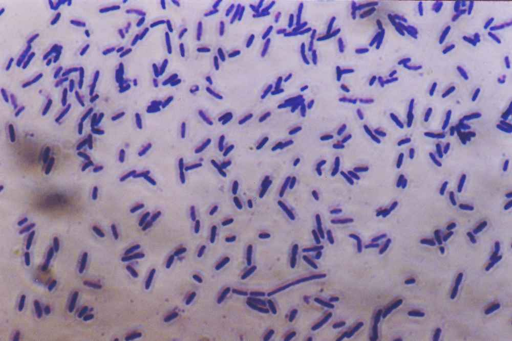 Photomicrograph of bacterial isolates which can decolorize textile dye reactive blue 19. Isolated by Muntasir Alam, University of Dhaka, Department of Microbiology in 2007. Simple stained with Crystal violet.